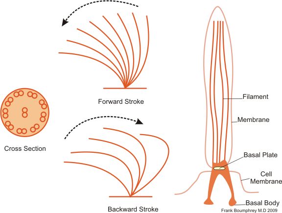 Composite of cilia, showing structure and action